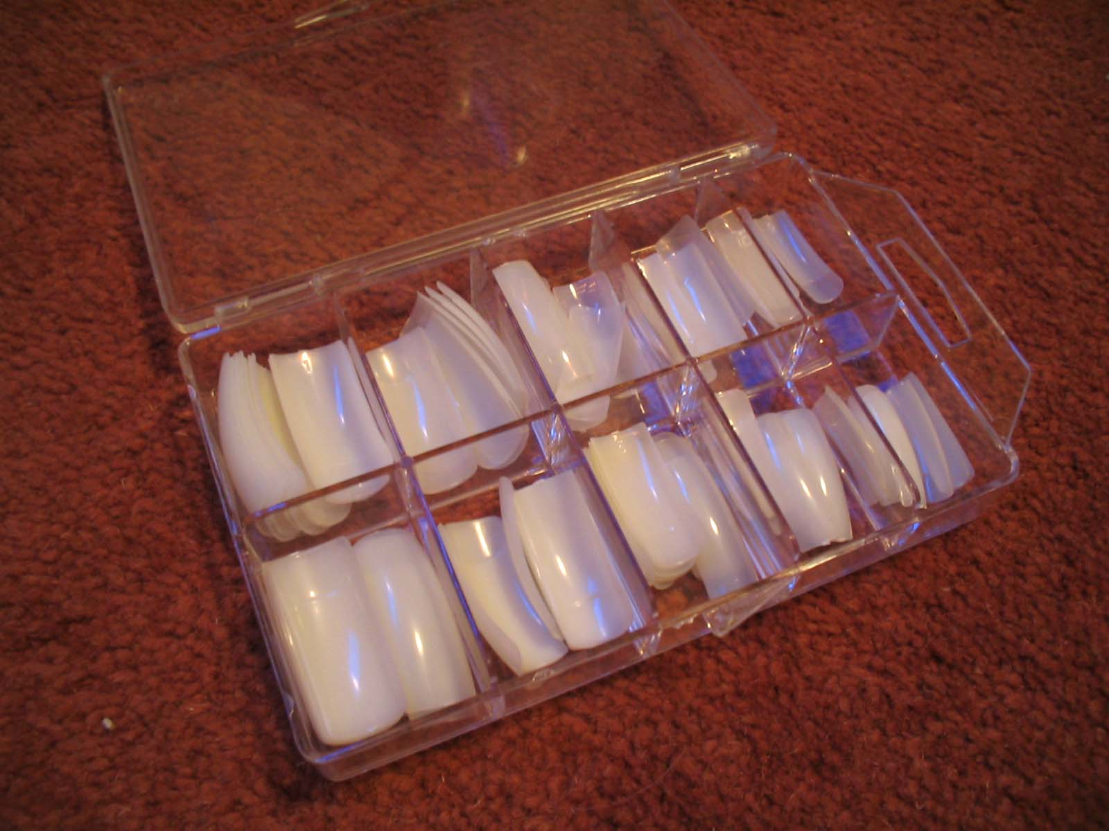 box with nails, tips, august 2005